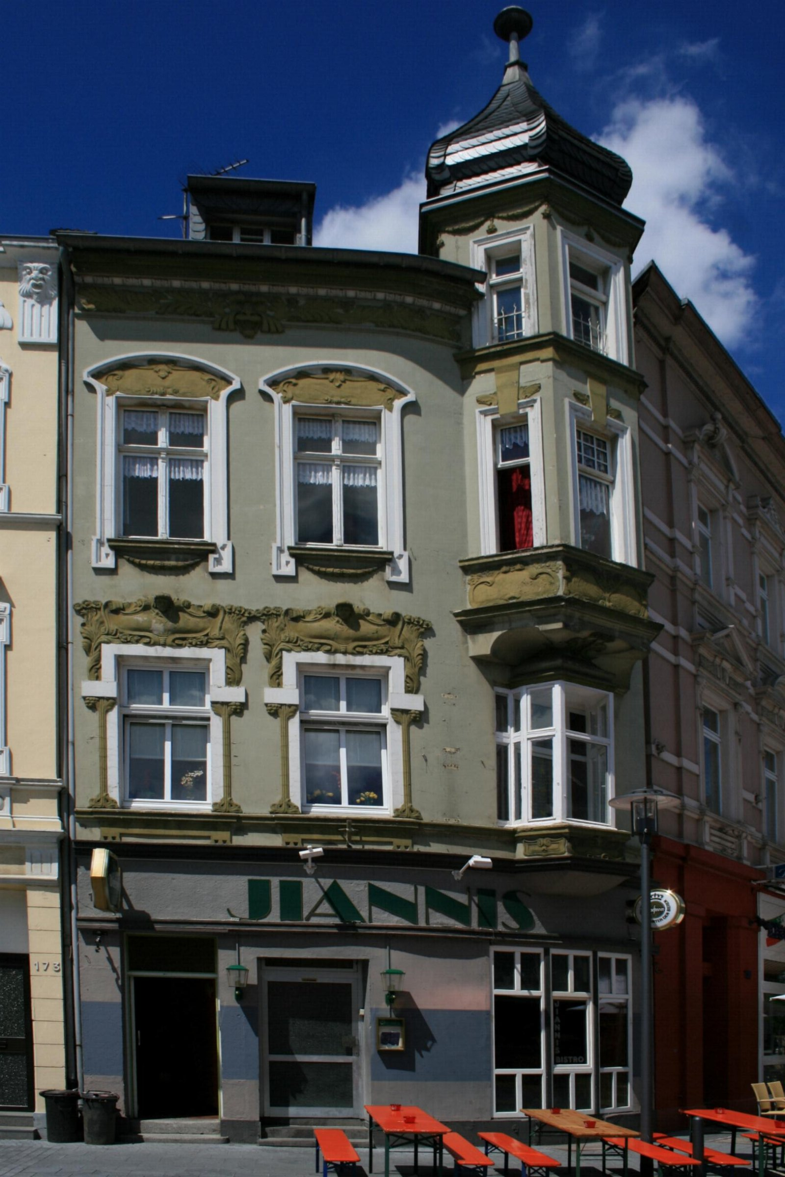 Cultural heritage monument No. R 013 in Mönchengladbach